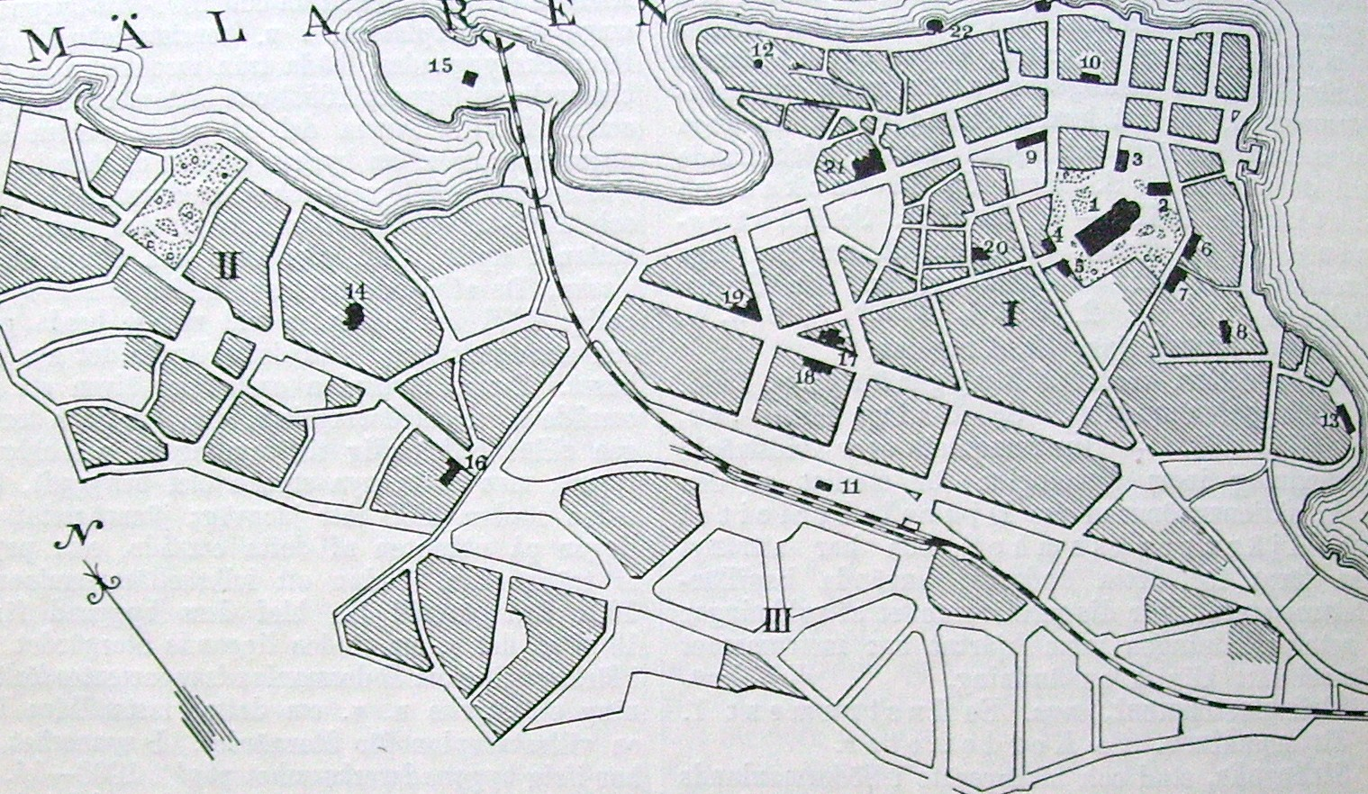 Picture of map of Strängnäs